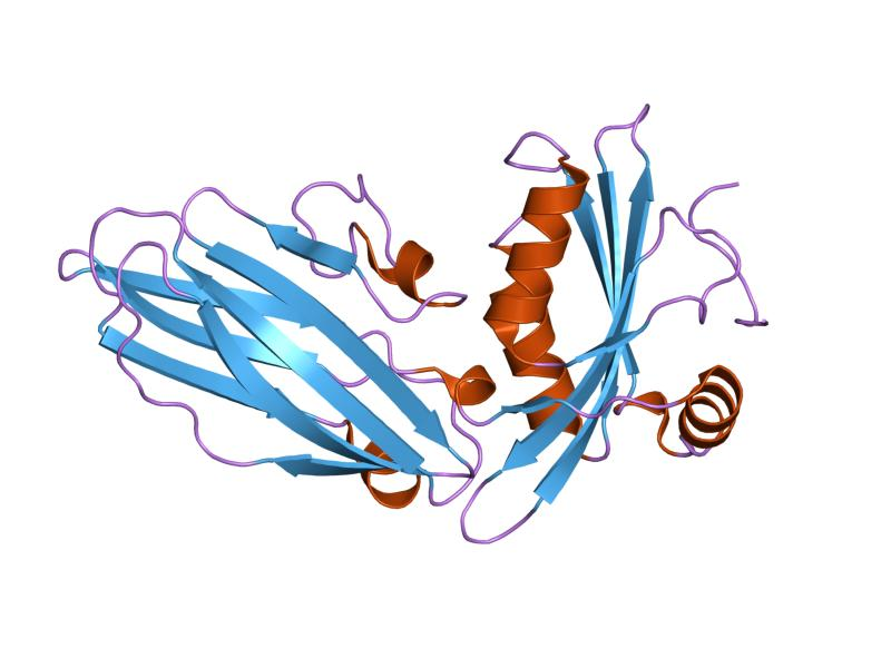 Cartoon representation of the molecular structure of protein registered with 1ky7 code.